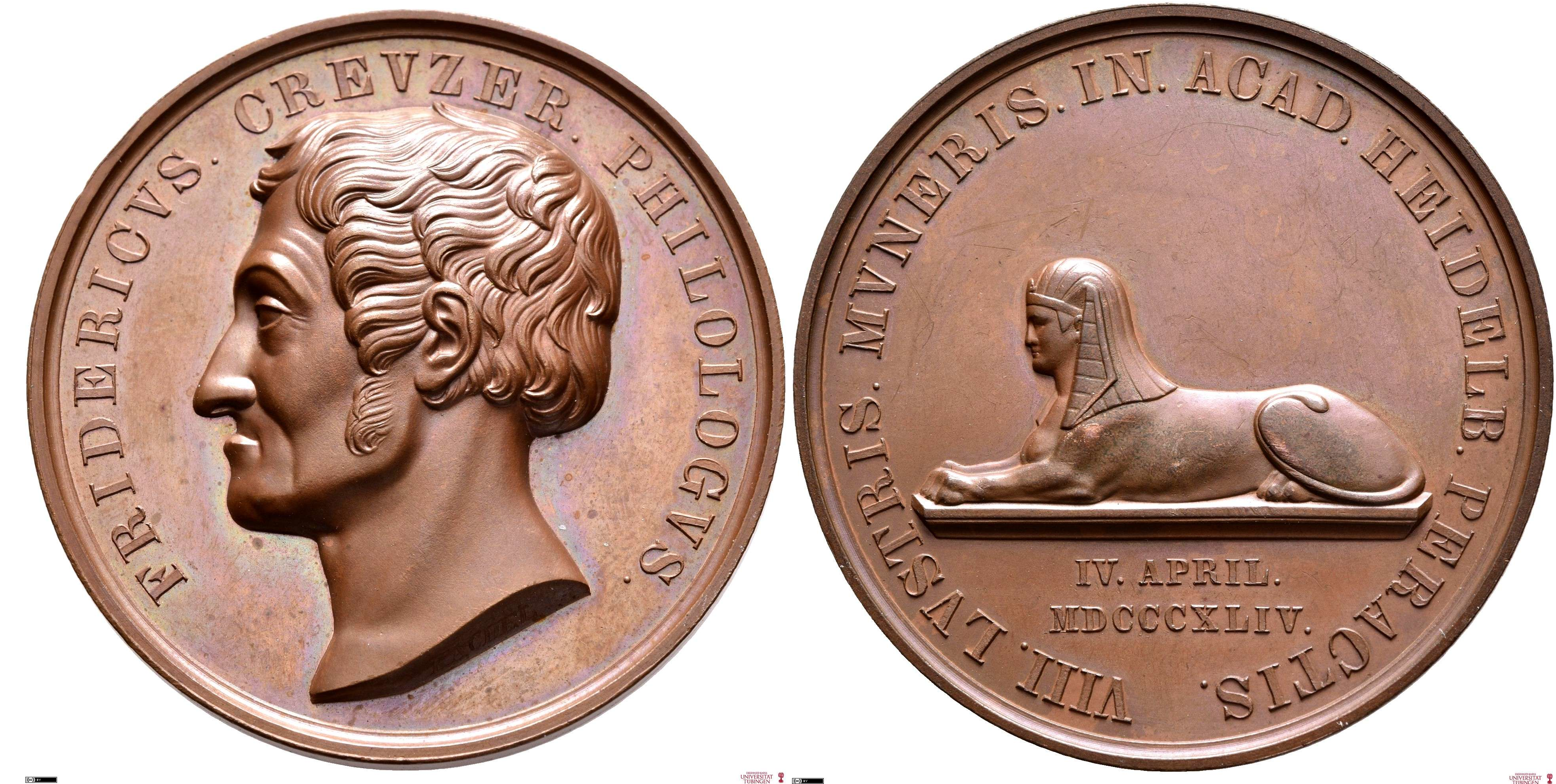 The front side depicts a bust of Creuzer surrounded by his name and profession in Latin. The engraver Ludwig Kachel signed below the neck. The back side pictures a reclining sphinx. The Latin dedication names the 50th anniversary of Creuzer working at the University of Heidelberg as the occasion for strucking the medal.